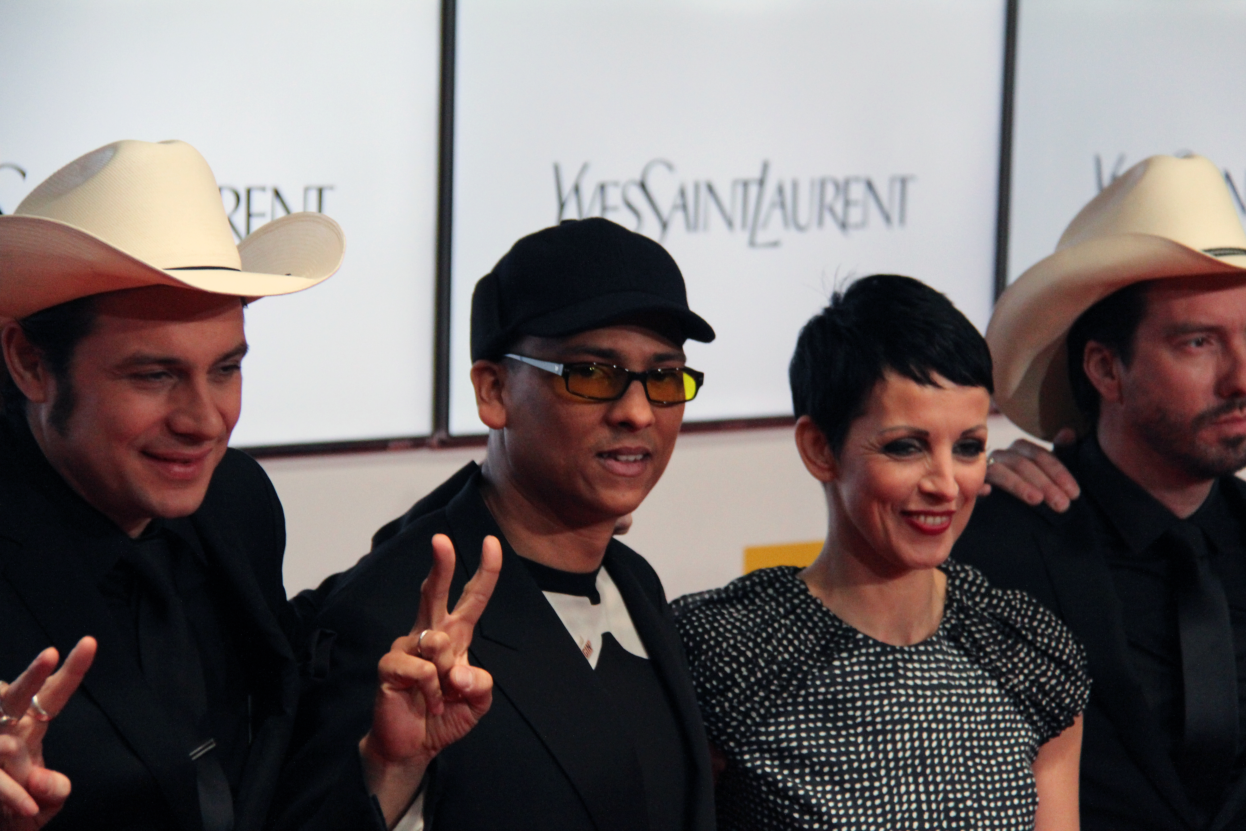 Das Coach-Team von The Voice of Germany (bei der Goldenen Kamera 2012